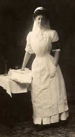 1907 photograph of Inès de Bourgoing Fortoul, president of the French Red Cross Organization